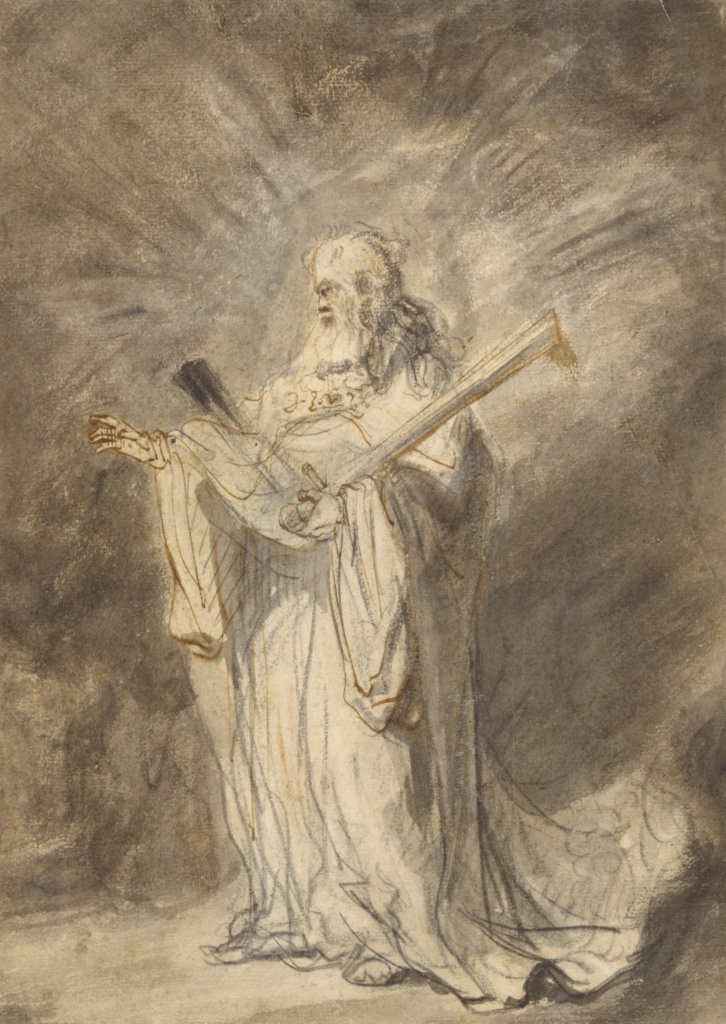 God's Messenger Appears to Joshua. This work is linked to Joshua 5:13